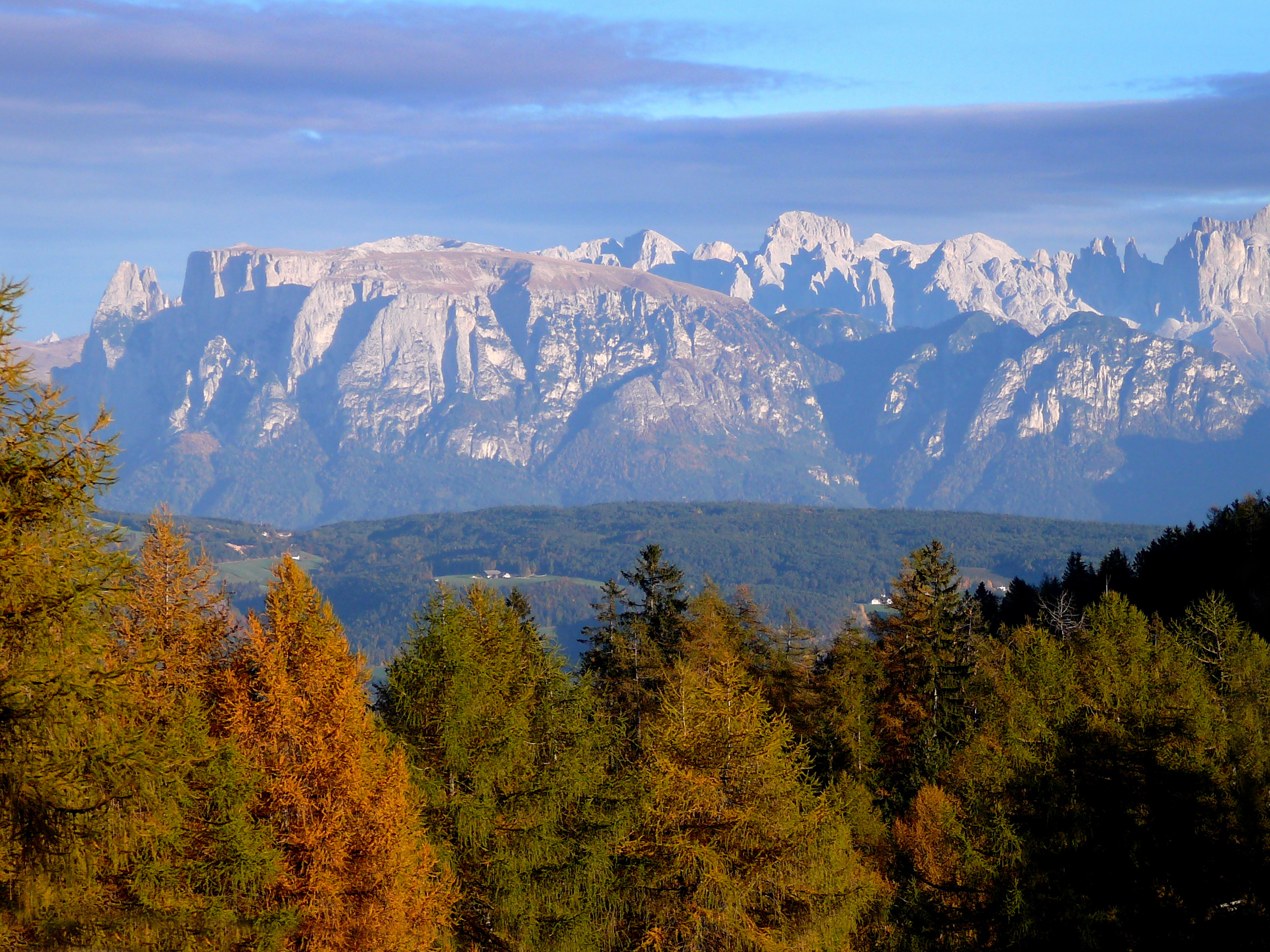 Larix decidua forest, Dolomites, San Genesio Atesino, Trentino-Alto Adige, Italy 46°32'21"N 11°19'43"E.